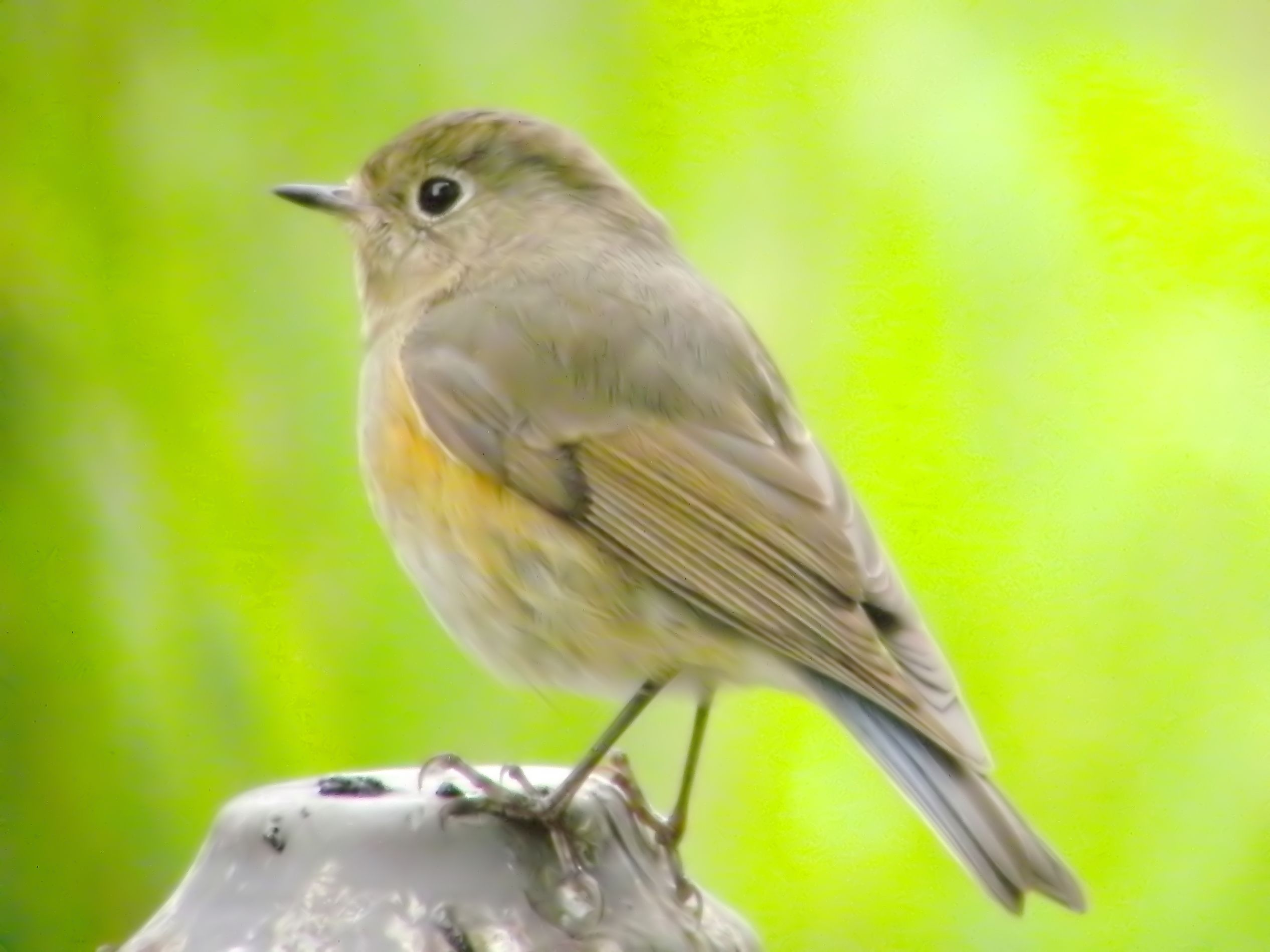 Saw near my home.